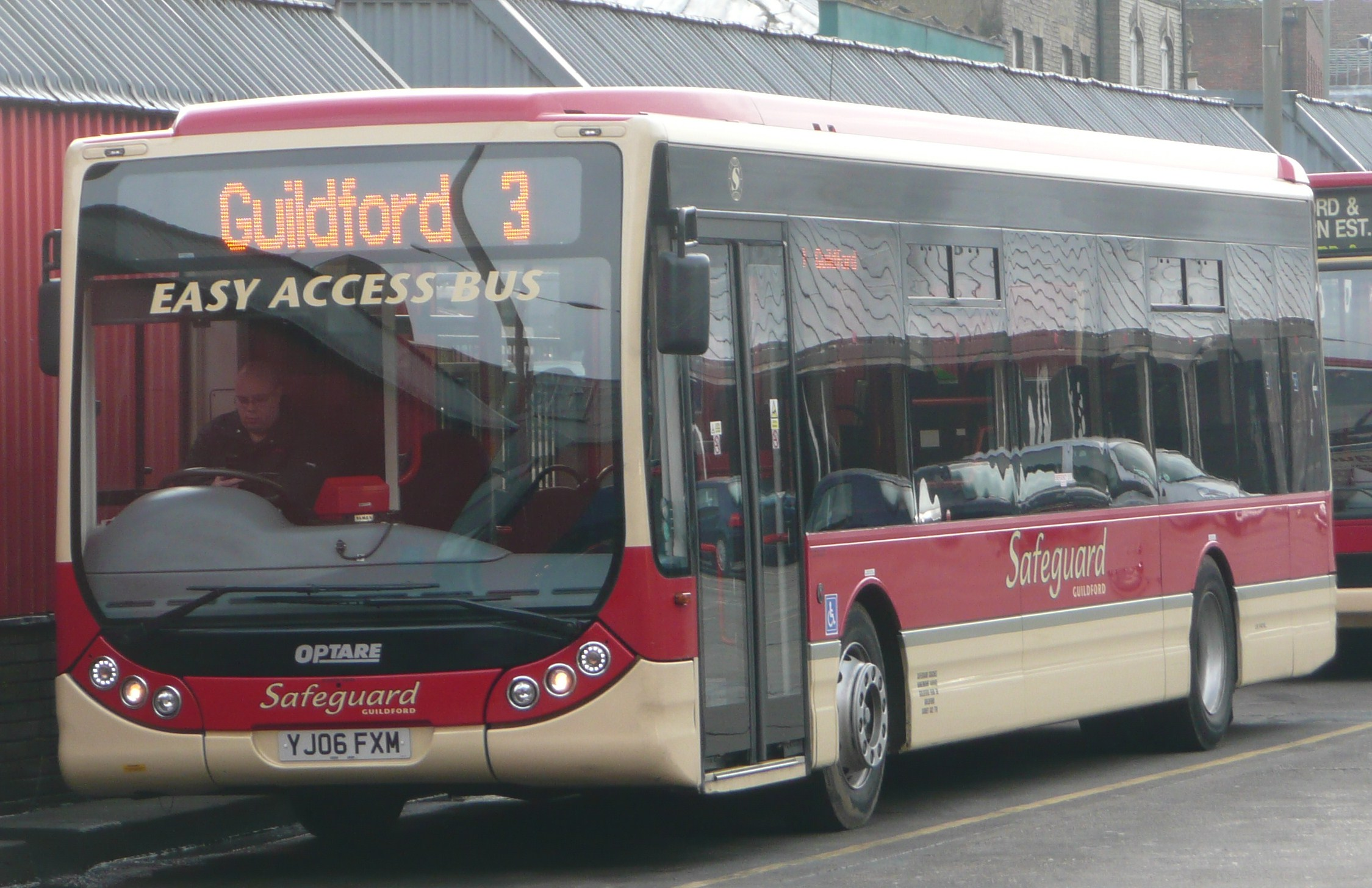 Safeguard Coaches' YJ06 FXM, an Optare Tempo, laying over in Guildford awaiting departure of route 3.